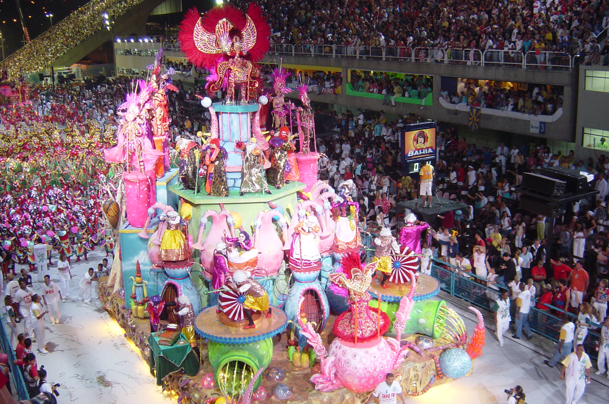 Inside the Sambadrome. picture taken by Alan Betensley, 2004.